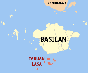 Map of the Basilan showing the location of Tabuan-Lasa